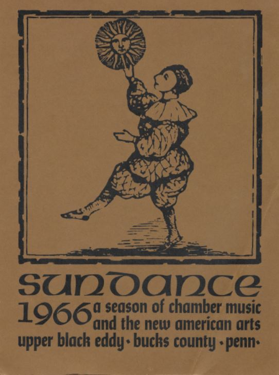 Sundance program cover page - 1966